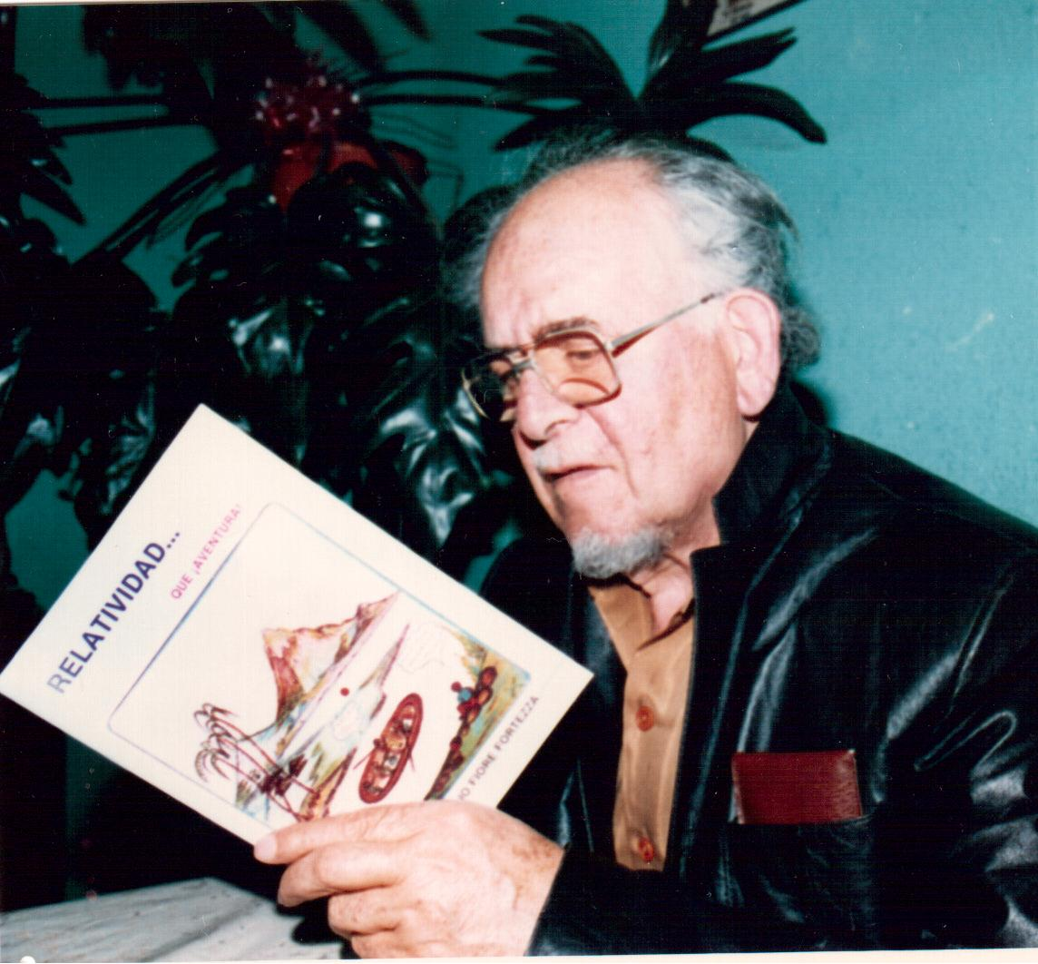 Remigio Rosario Fiore Fortezza - Monreale, Palermo (Italy) June 6 1911 - Palermo, July 23 1998